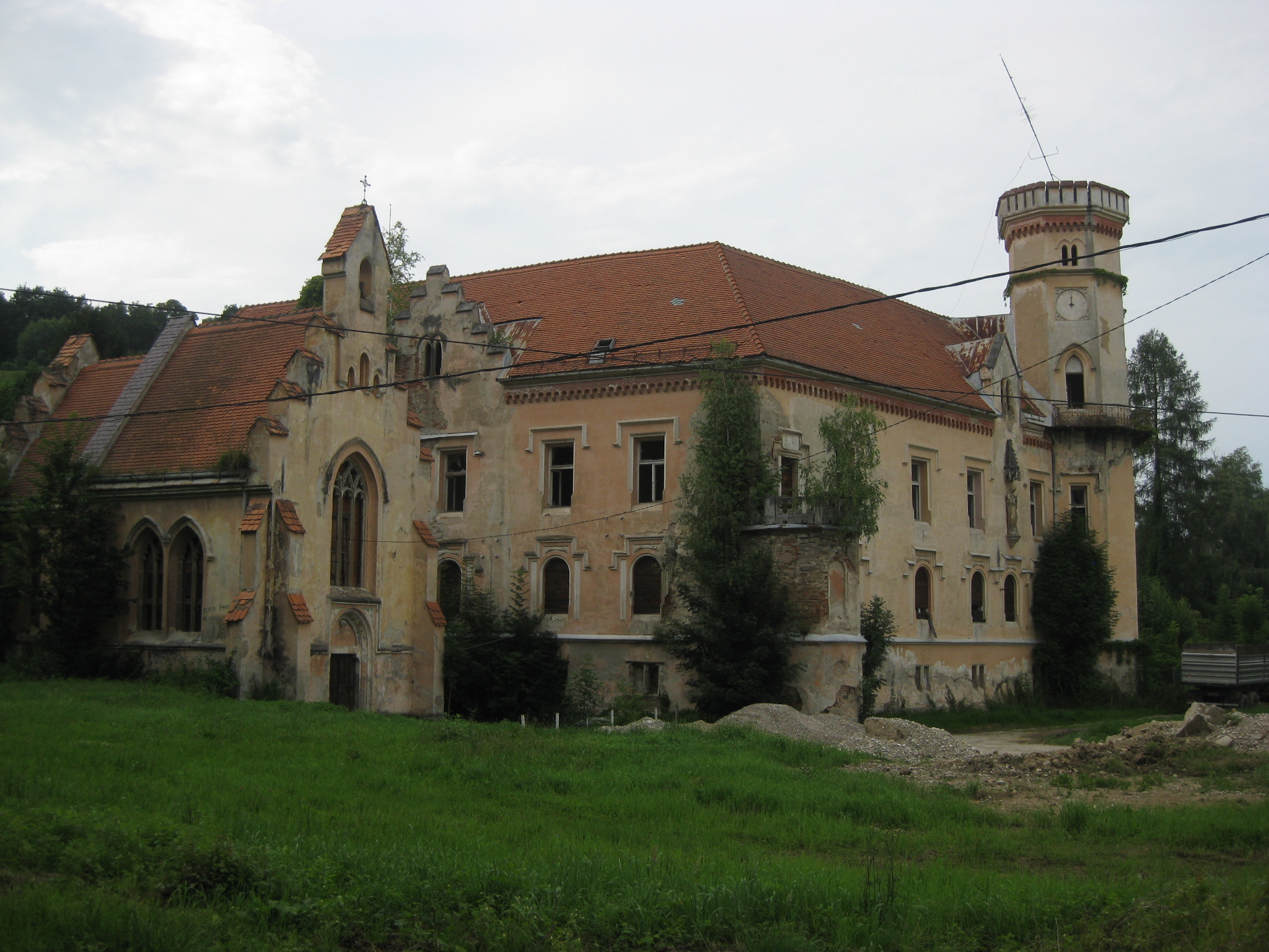 Slivnica castle, Slovenia